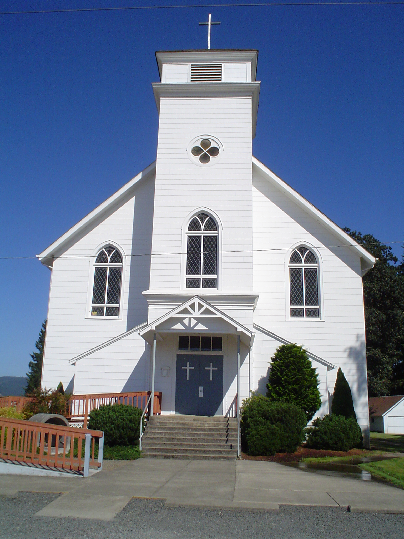 Picture of Our Lady of Lourdes church in Jordan